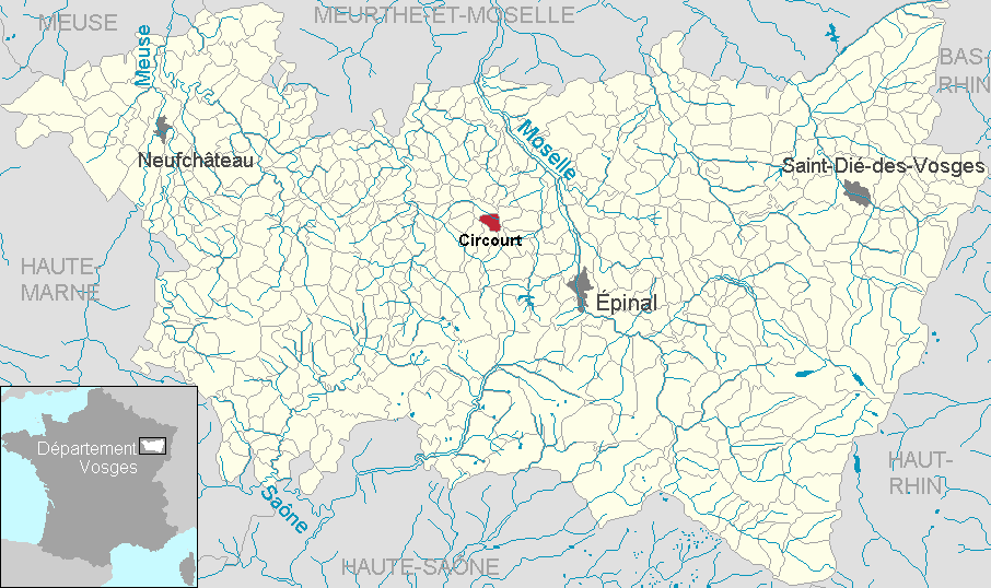 Circourt in the department of Vosges, Lorraine, France